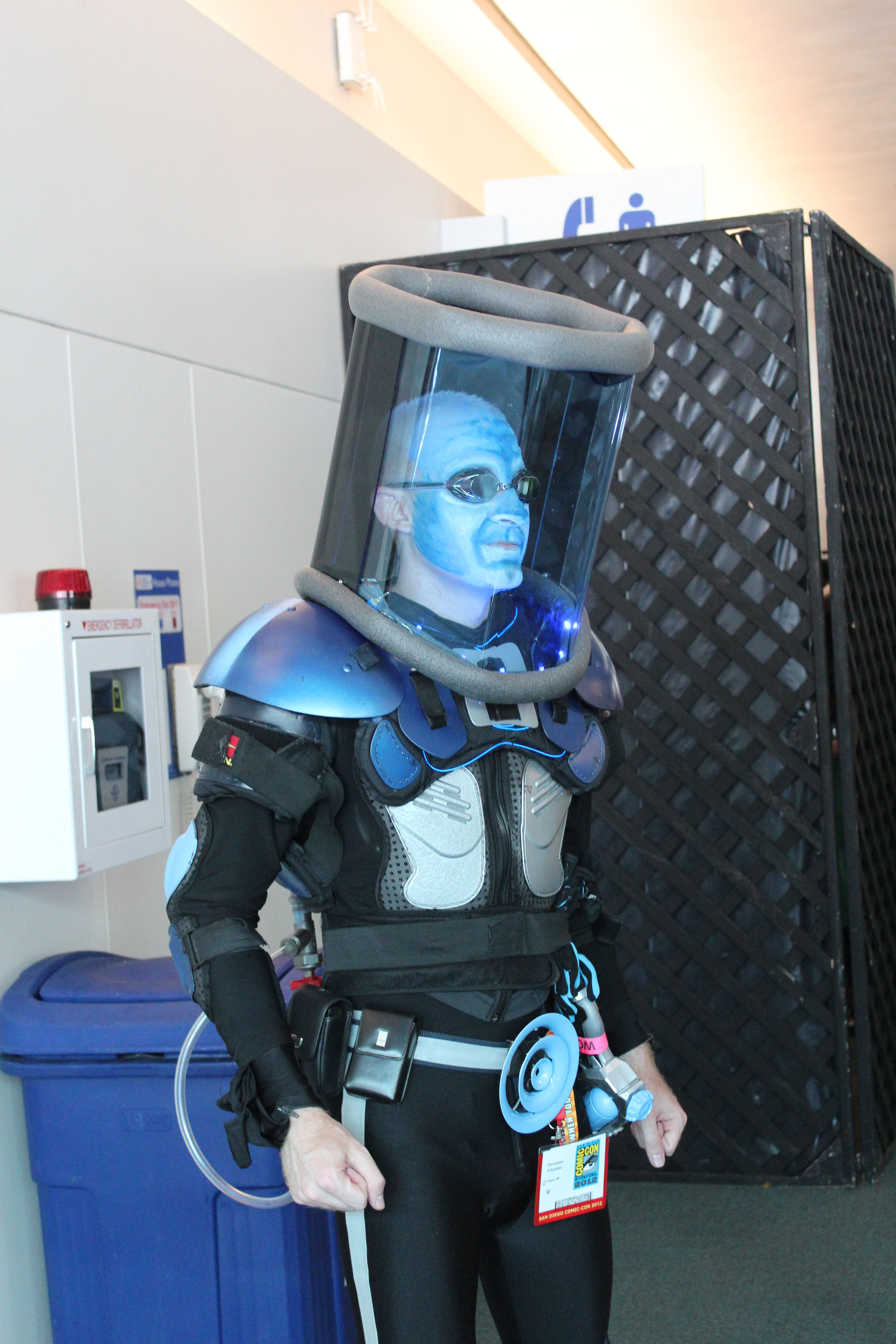 Cosplay at San Diego Comic-Con (SDCC 2012).